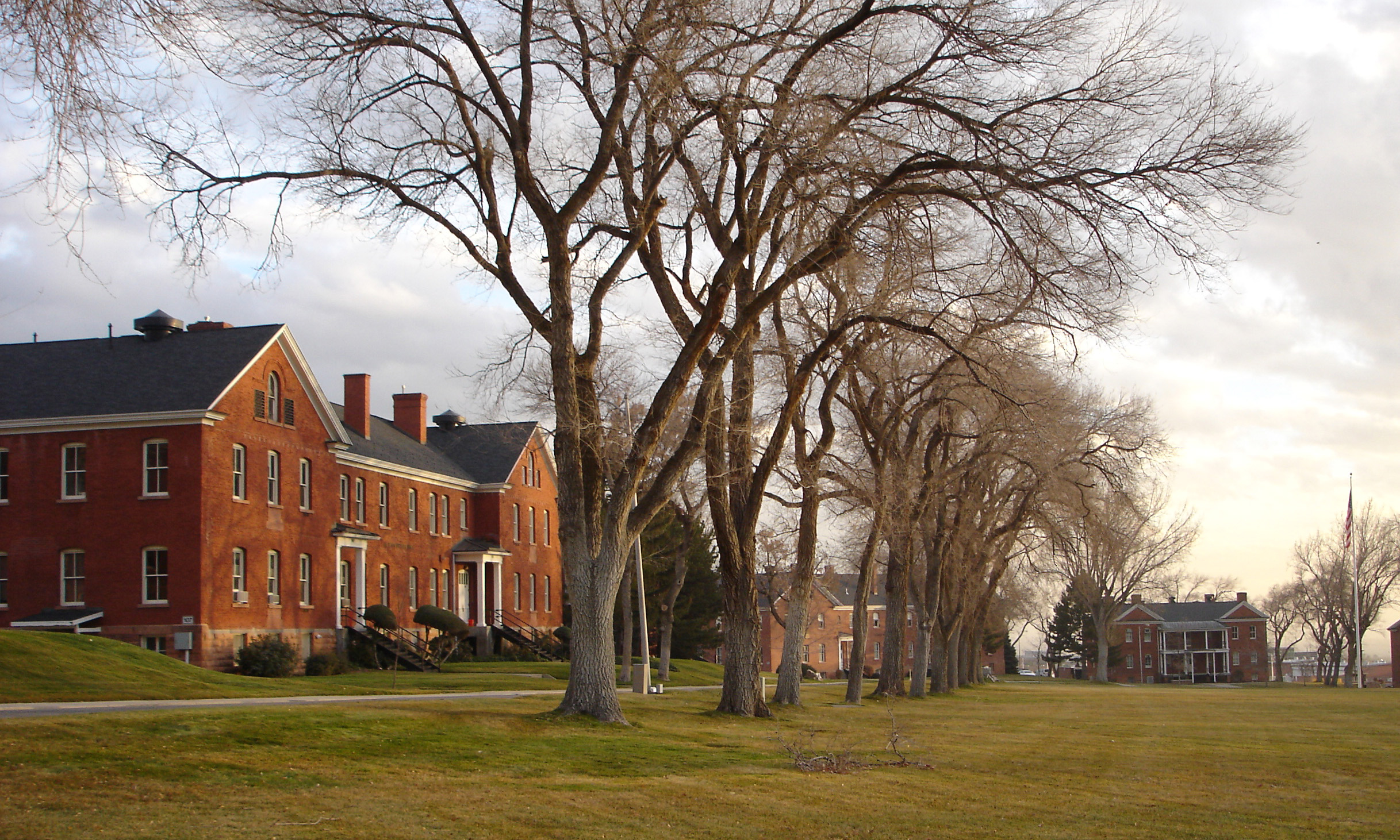 Soldier's Circle at Fort Douglas, Utah. This part of the fort is still actively used by the United States military as the Fort Stephen A. Douglas Armed Forces Reserve Center.